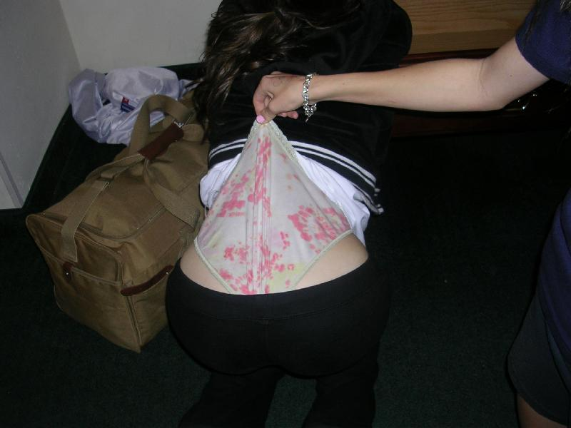 A girl receiving a Wedgie